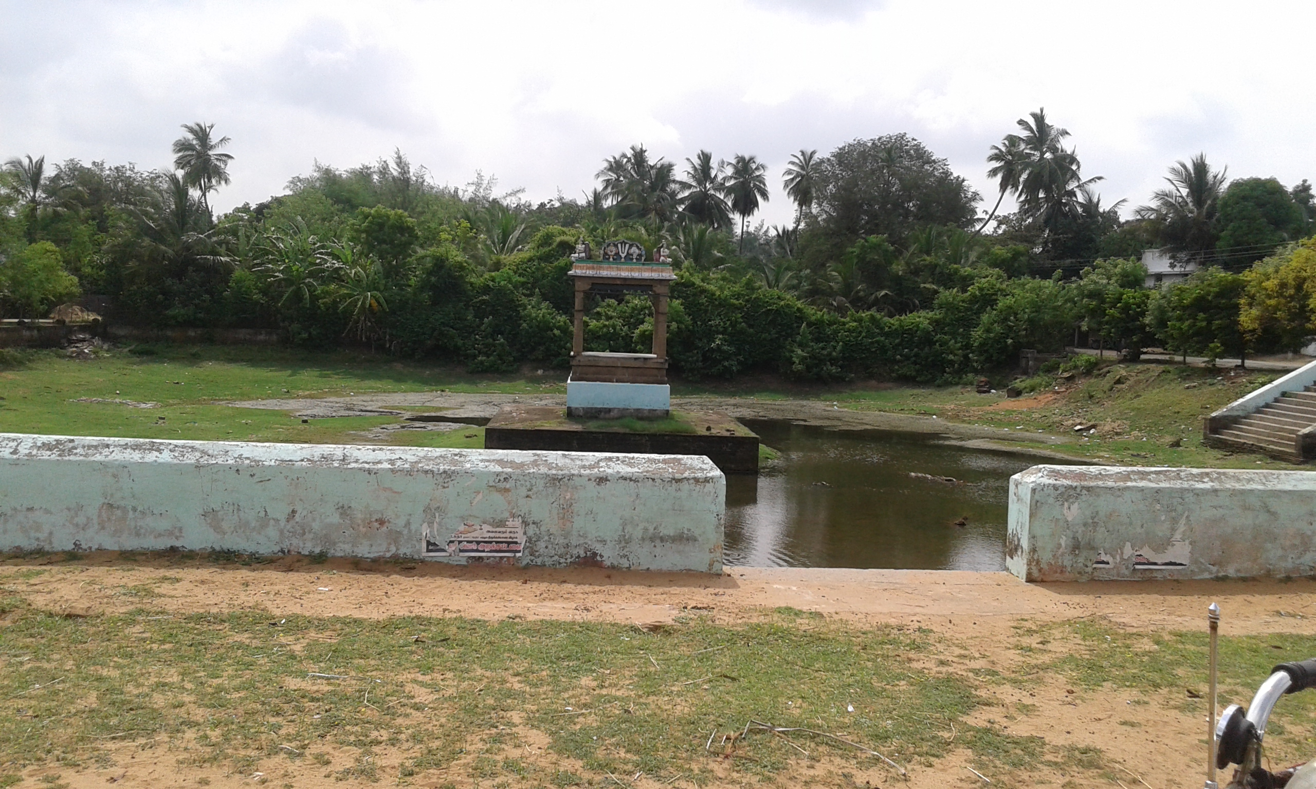 Narayana Perumal